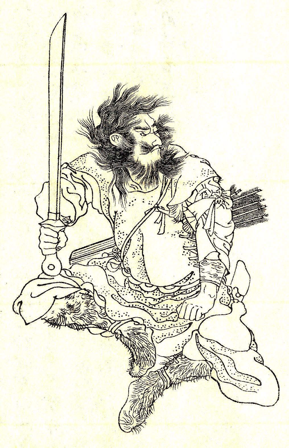 Itsuse no Mikoto（五瀬命）was a legendantly person of Japanese Mythology.He was a brother of Emperor Jimmu.